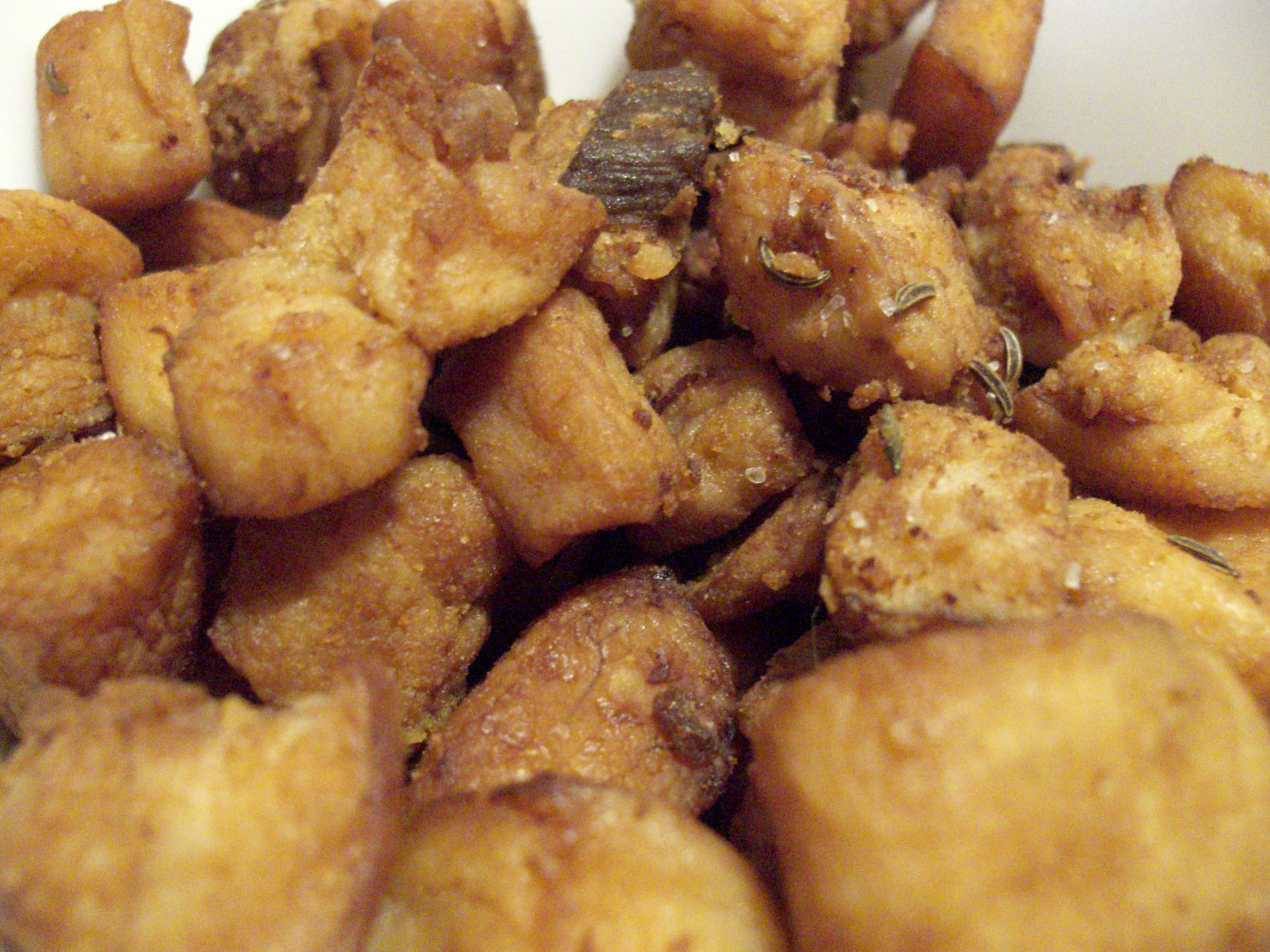 Cracklings from red meat